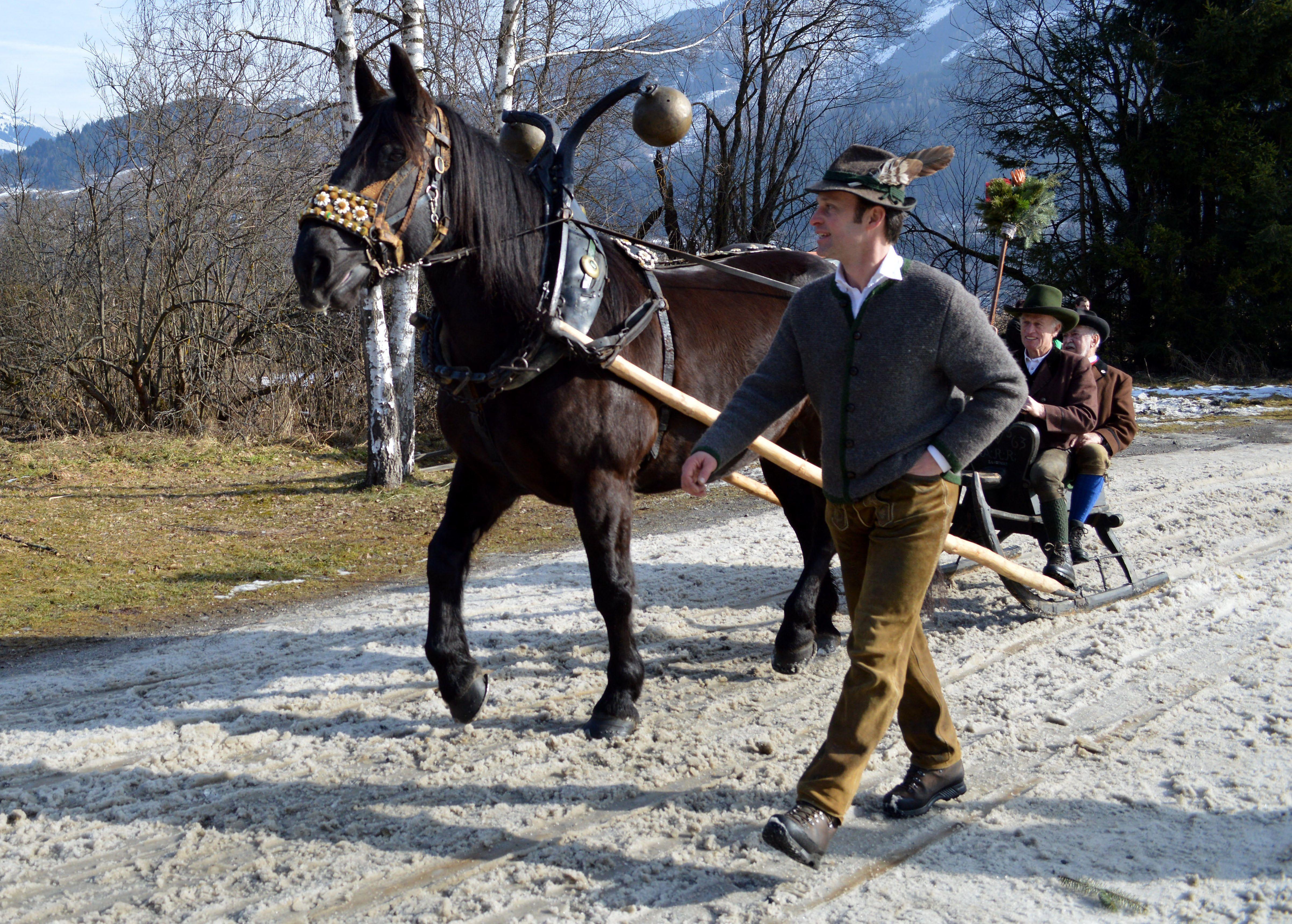 Traditionally harnessed Noriker horse (horse-team) drawing historical sleigh at the Pinzgauer Brauchtums- und Trachtenschlittenfest in Zell am See (February 2nd, 2014).